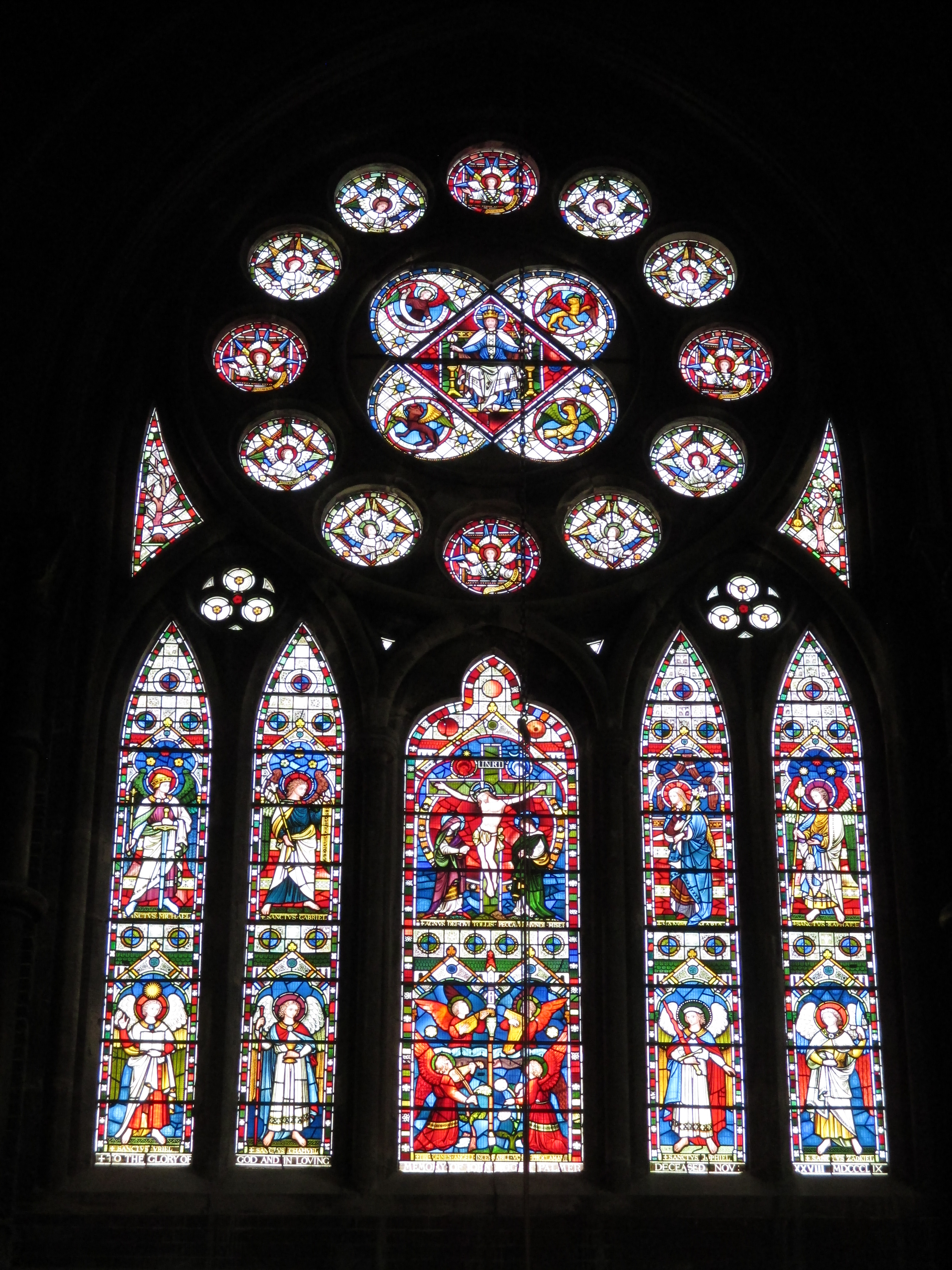 The east window of St Michael and All Angels (Old Church), Brighton, East Sussex, made by the firm of Clayton and Bell in 1862. It represents, (at top): Christ in Majesty; (higher row) the archangels Michael and Gabriel, the Virgin Mary, and the archangel Raphael; (lower row) the archangels Uriel, Camael, Jophiel and Zadkiel; (centre) the Crucifixion.